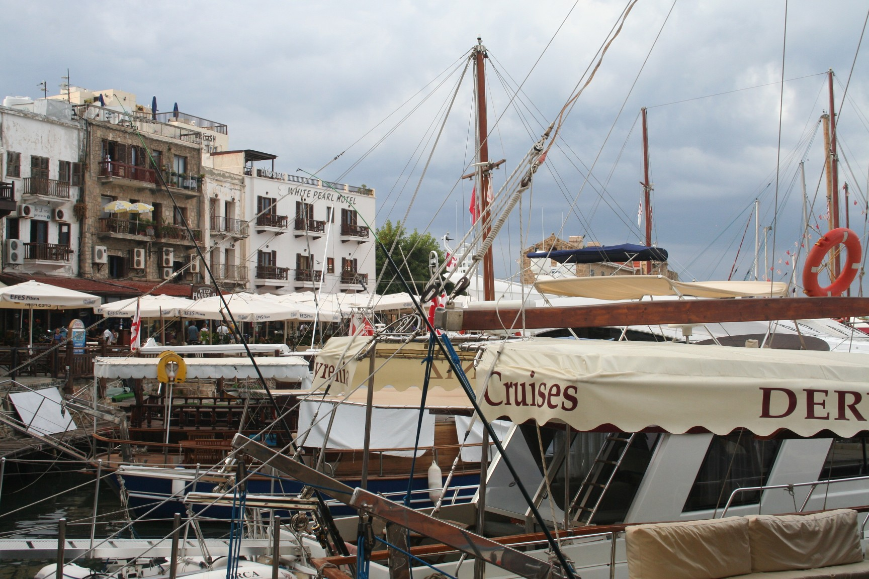 Kyrenia Harbor